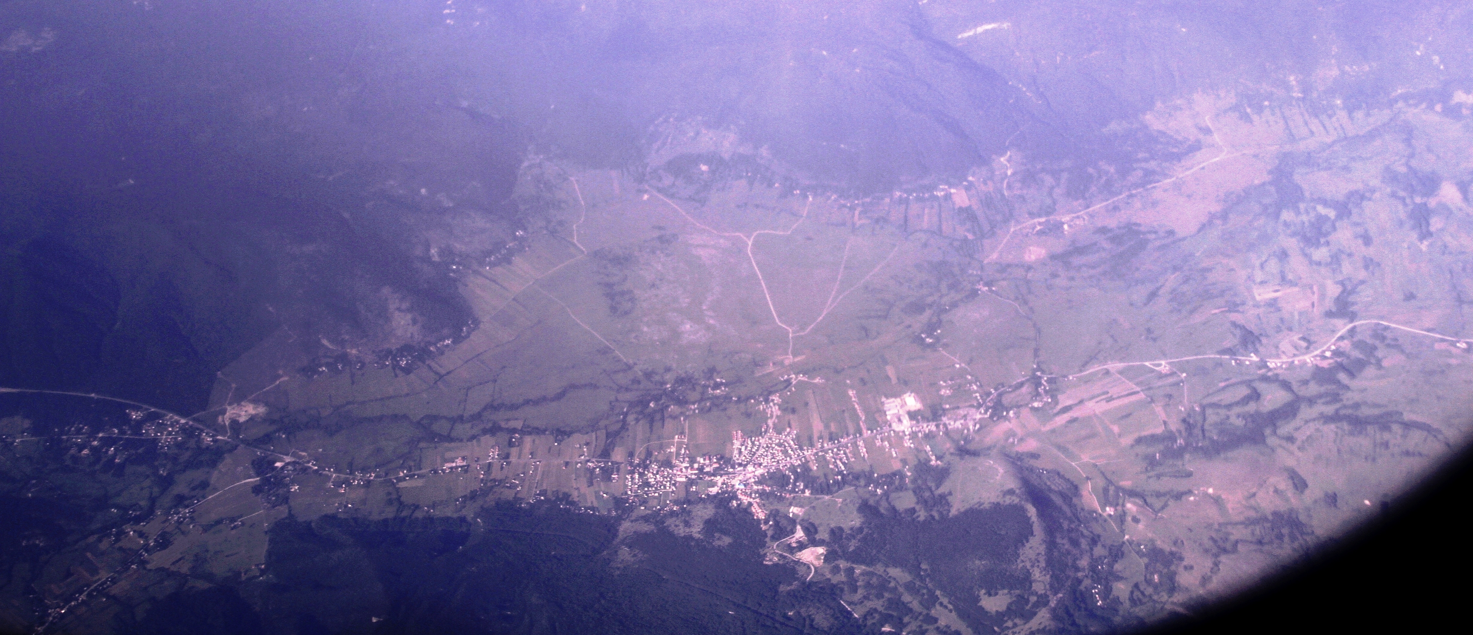 Aerial view over the western, Dalmatia parts of Croatia.